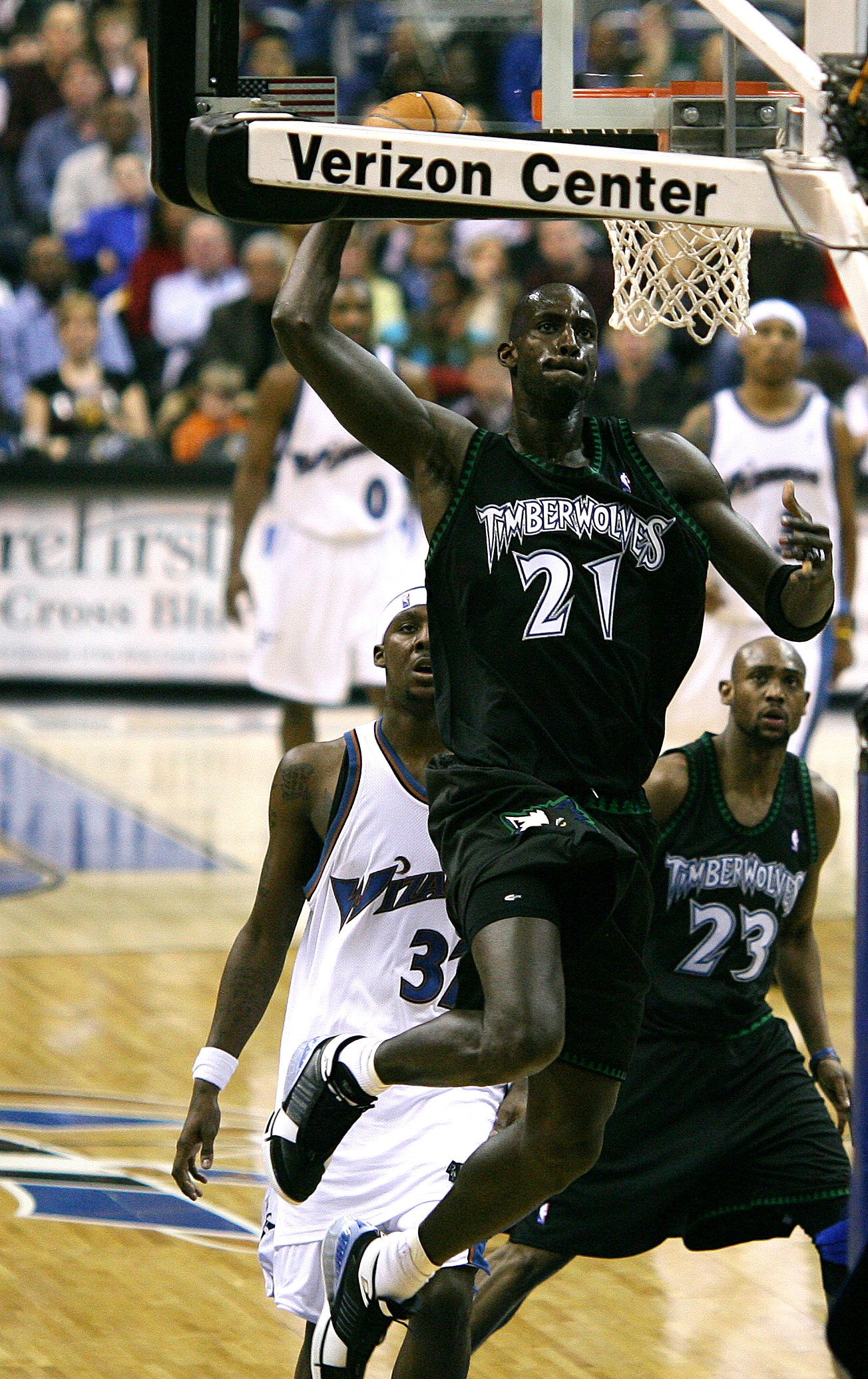 Kevin Garnett playing with the Minnesota Timberwolves